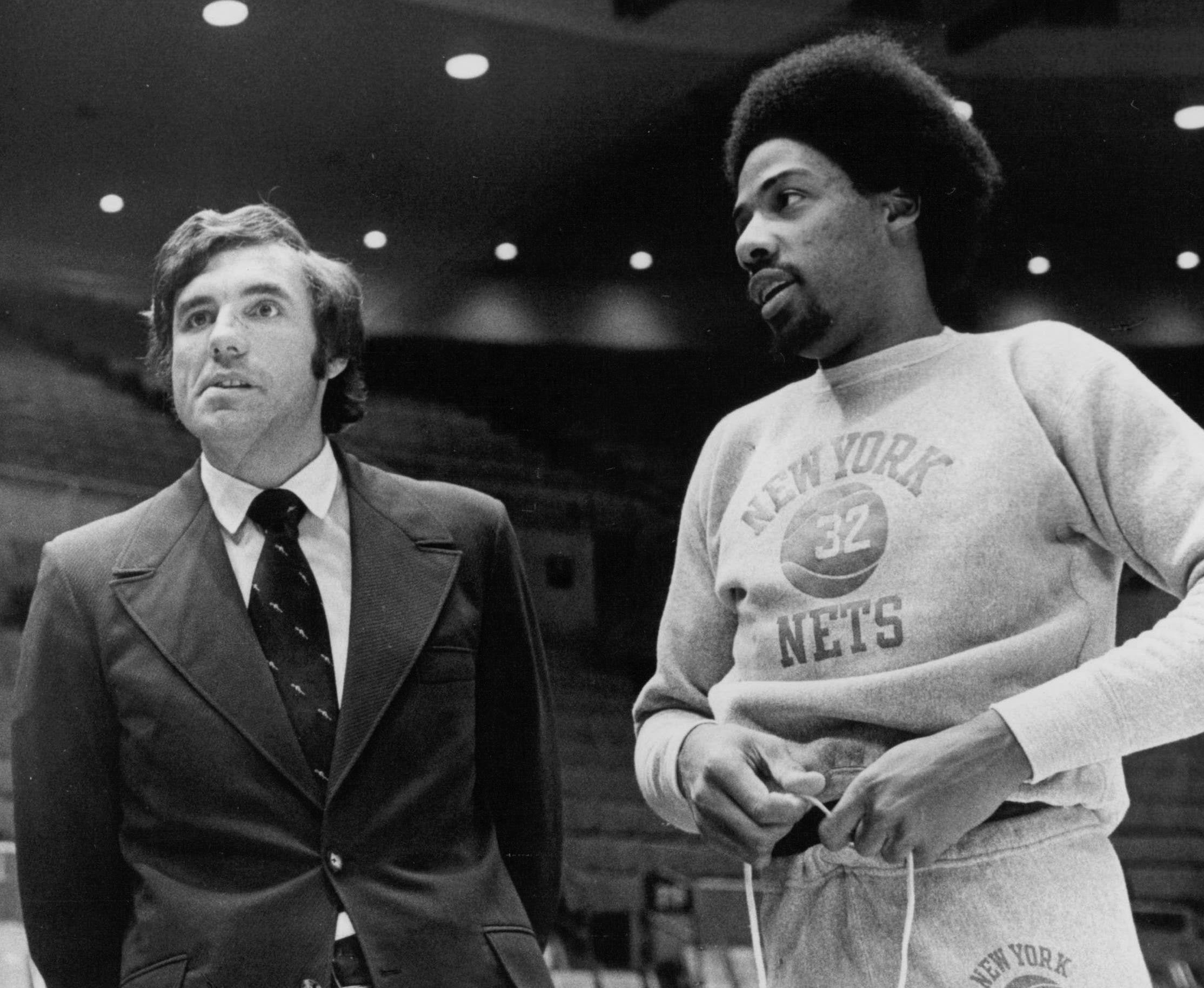 Professional basketball player Dave DeBusschere (left) and Julius Erving (right)